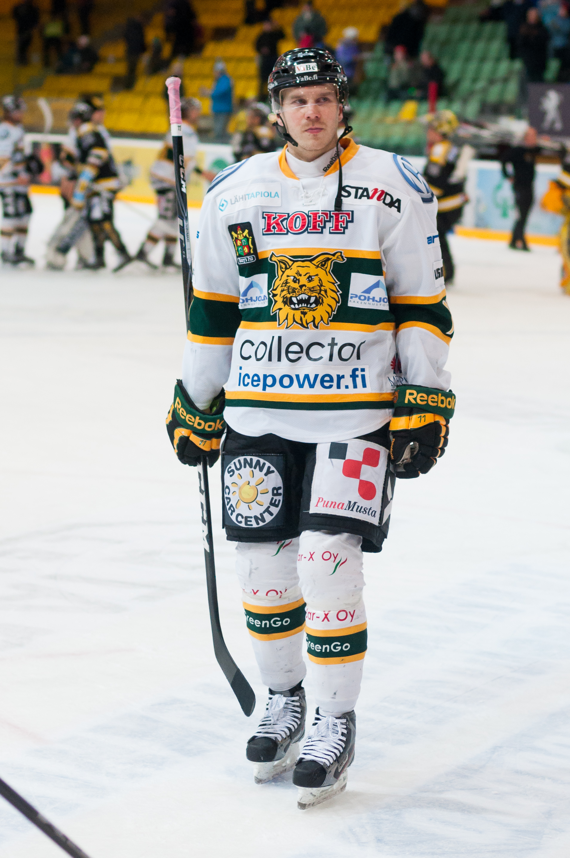 Finnish ice hockey right winger Jesse Niinimäki of Tampereen Ilves after a game against SaiPa Lappeenranta in Lappeenranta, Finland.